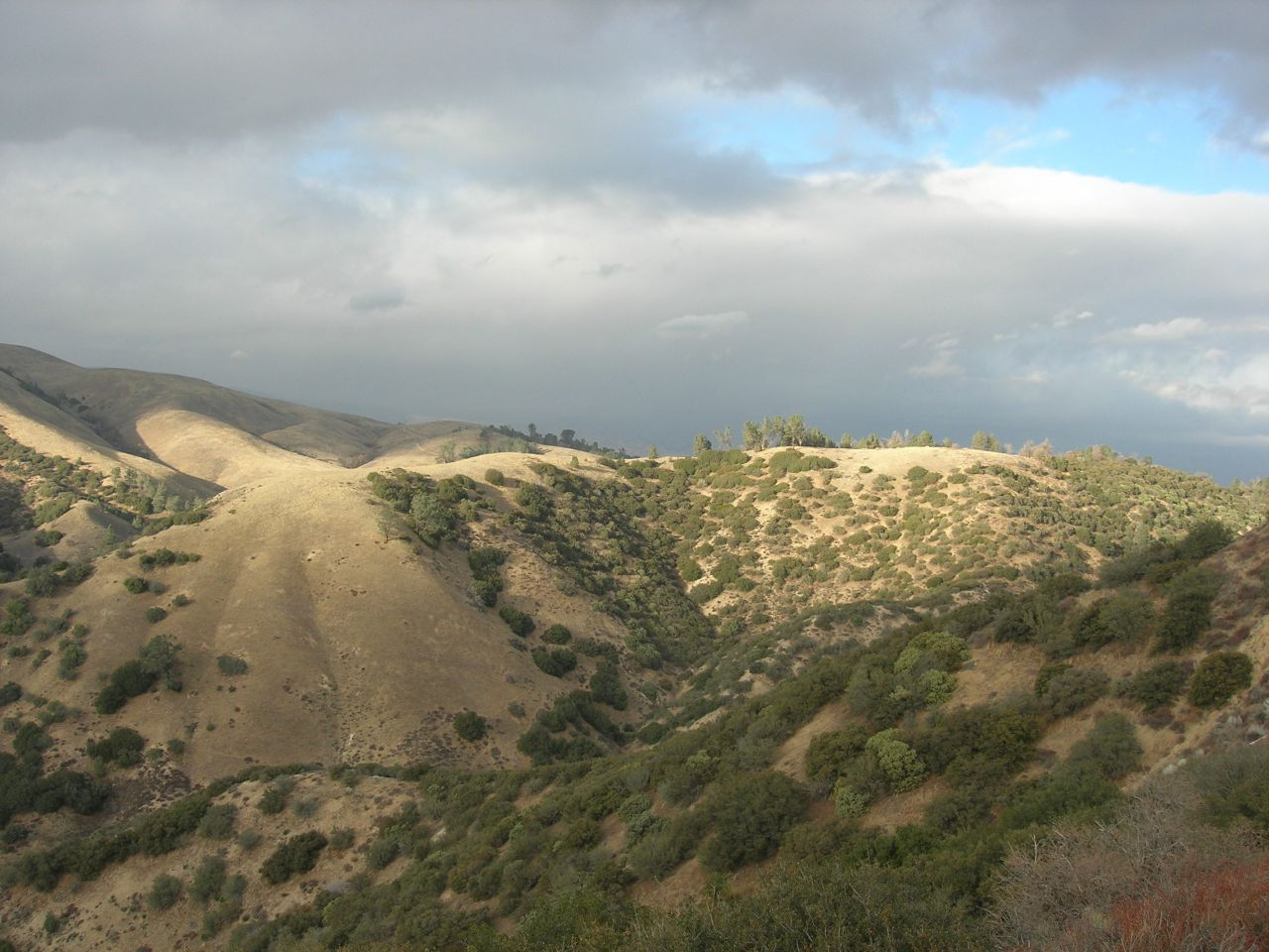 Liebre Mountains from the Old Ridge Route, Los Angeles County